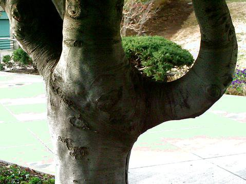 Kentucky Yellowwood tree along the Canal, Downtown Indianapolis, Indiana, USA, showing the rather smooth gray bark and the habit of branching low to the ground